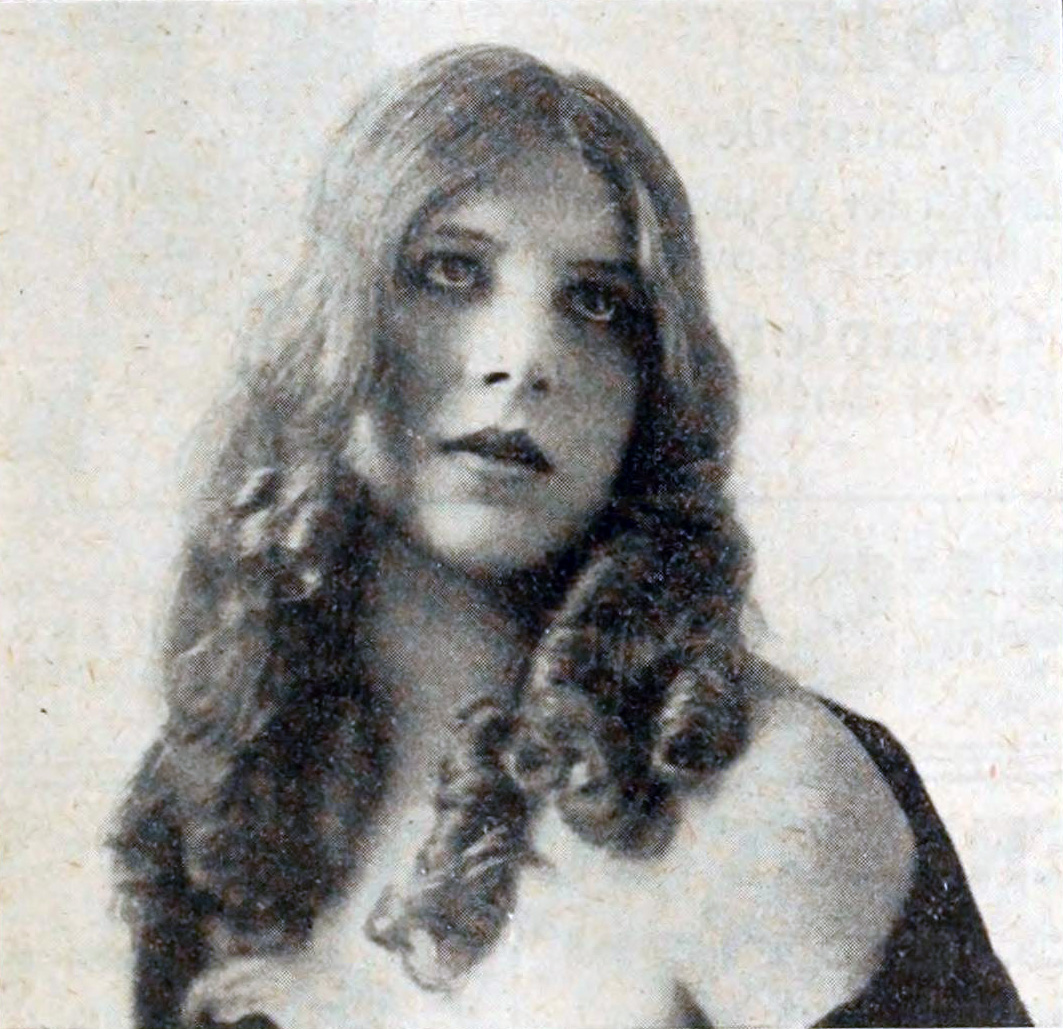 Advertisement in The Moving Picture World